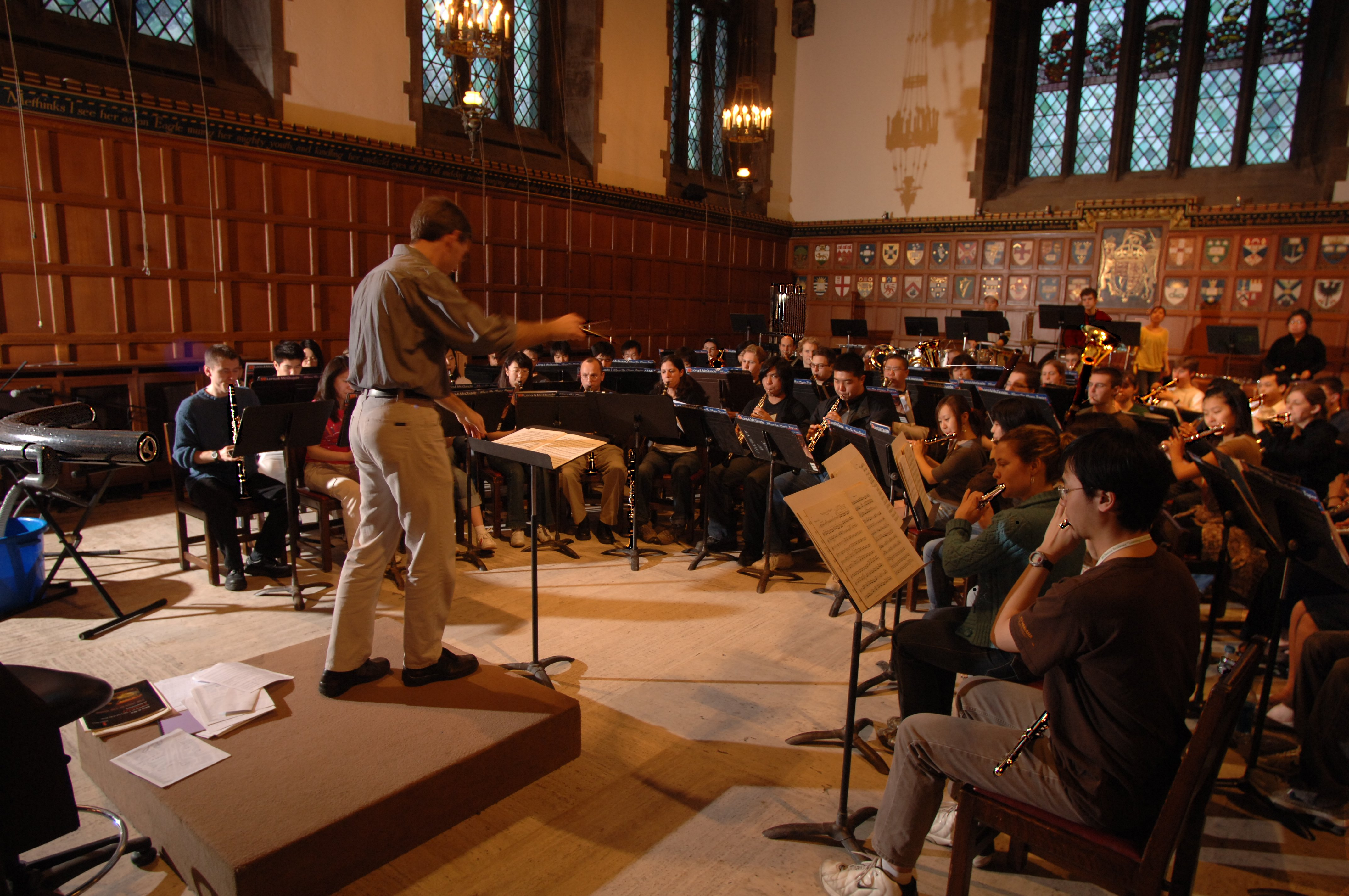 Picture I took at hydraulophone rehearsal, at the Great Hall, Hart House, University of Toronto, Nikon D2X, wearable computer, wireless link to Lumedyne light source set to maximum (400J, lamp operating at 480 volts, triggered at 6000 volts, all capacitors switched to load, used with stock dimpled aluminum reflector). The conductor is Roger Mantie. Hydraulist and composer Ryan Janzen is shown playing clarinet, leftmost, next to 45-jet hydraulophone pictured at left. Taken Tuesday evening, 2007 March 27th (all rehearsals and the concert itself, are on Tuesdays; date in camera may be wrong by one day.)